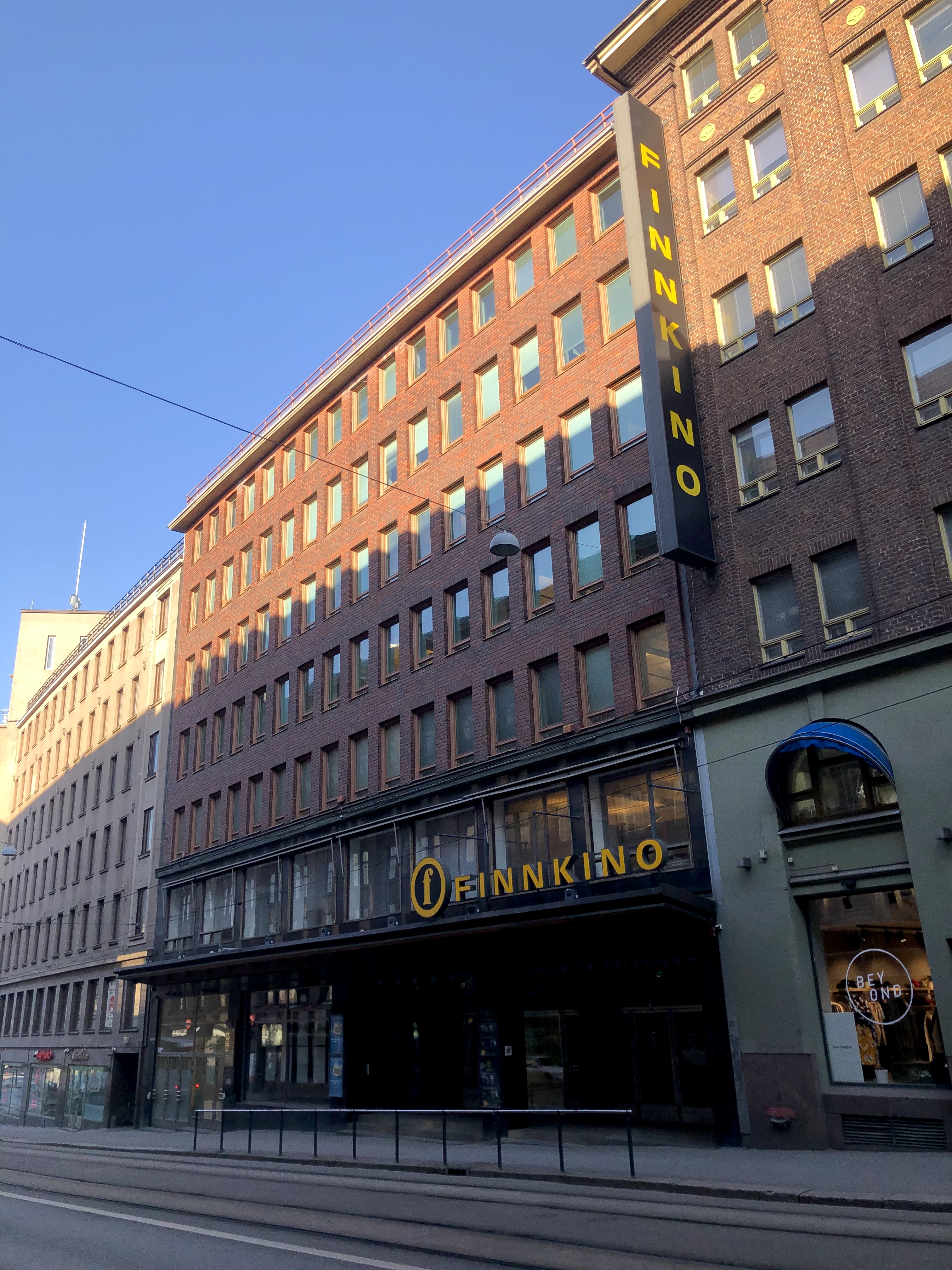 Kaisanimenkatu in April 2020.